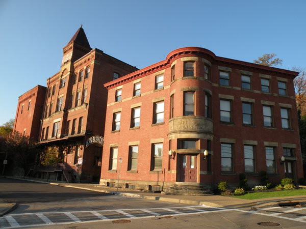 Picture of the Eberhardt and Ober Brewery (now part of the Penn Brewery complex), in the Troy Hill neighborhood of Pittsburgh, Pennsylvania, on November 1, 2009. The brewery was originally founded in 1848, and the existing buildings shown here are circa 1880. The brewery is on the National Register of Historic Places. Location: Troy Hill Road and Vinial Street.